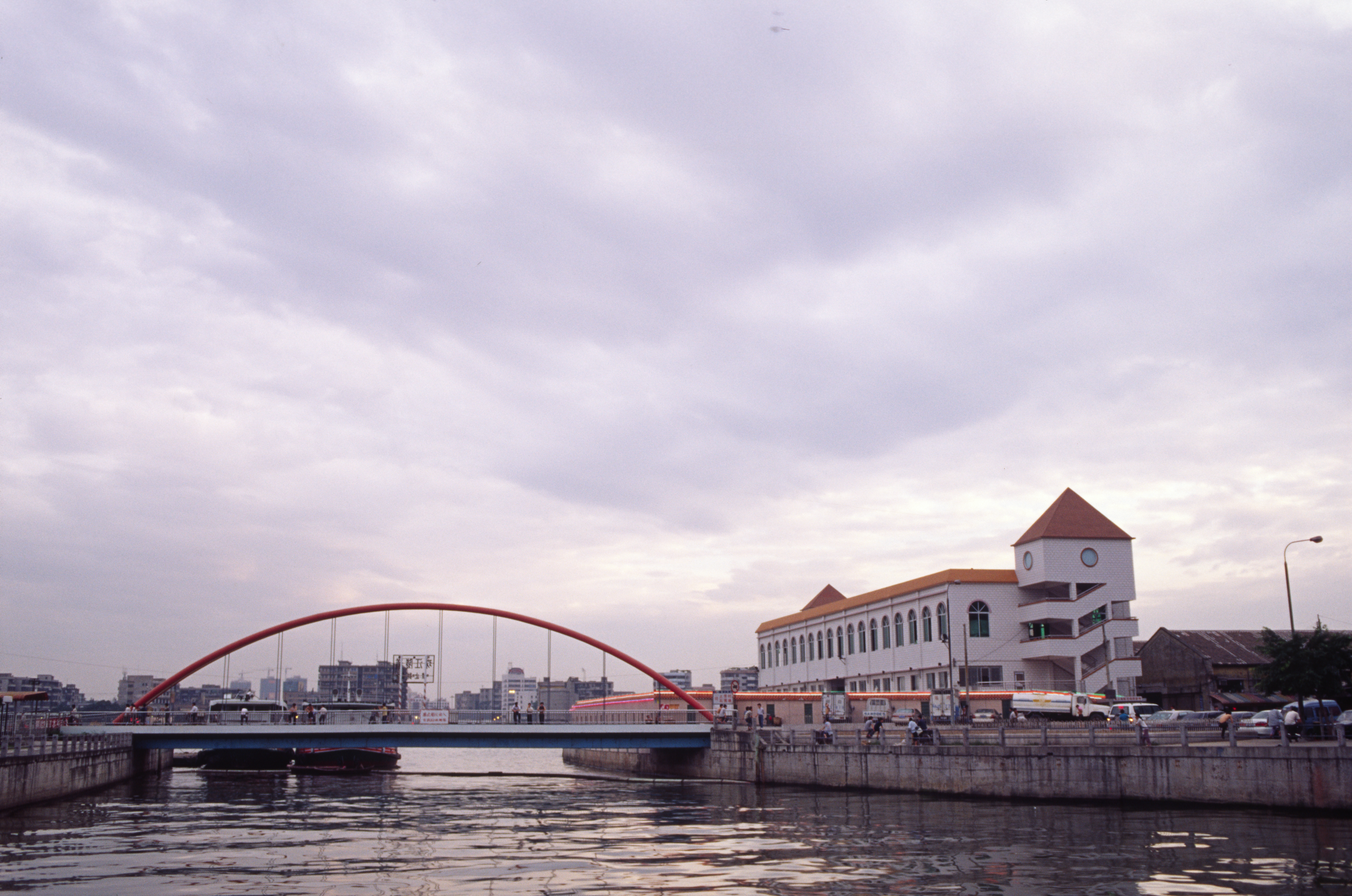 the only entrance, a tied-arch bridge, to Wongsha Pier, Canton, Kwangtung 粵語: 廣州黃沙碼頭拱橋